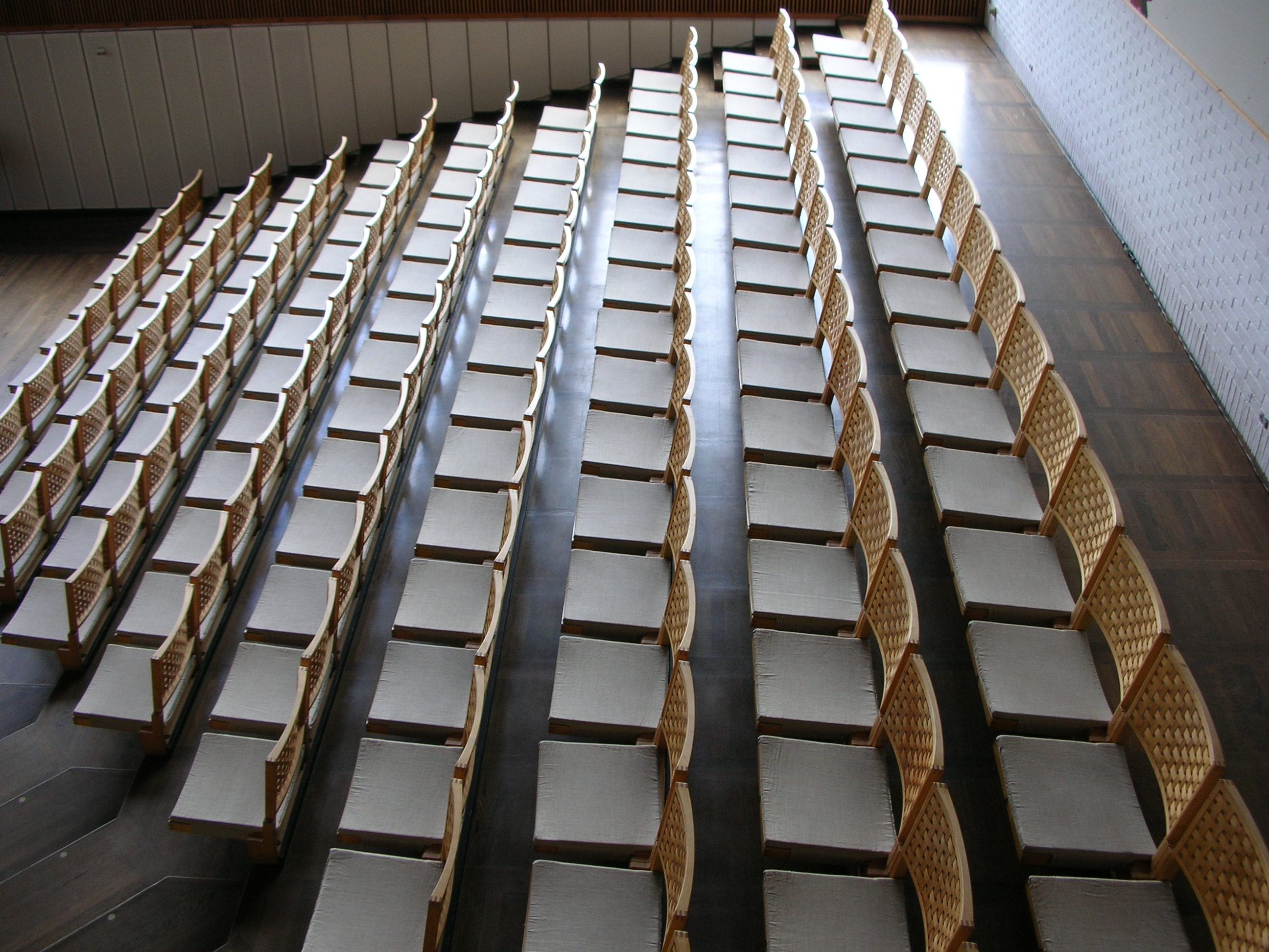 The concert hall in the Louisiana Museum of Modern Art north of Copenhagen, Denmark